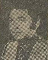 Ettela'at newspaper, No.14738, dated Khordad 31, 1354 (21 June 1975), page 4